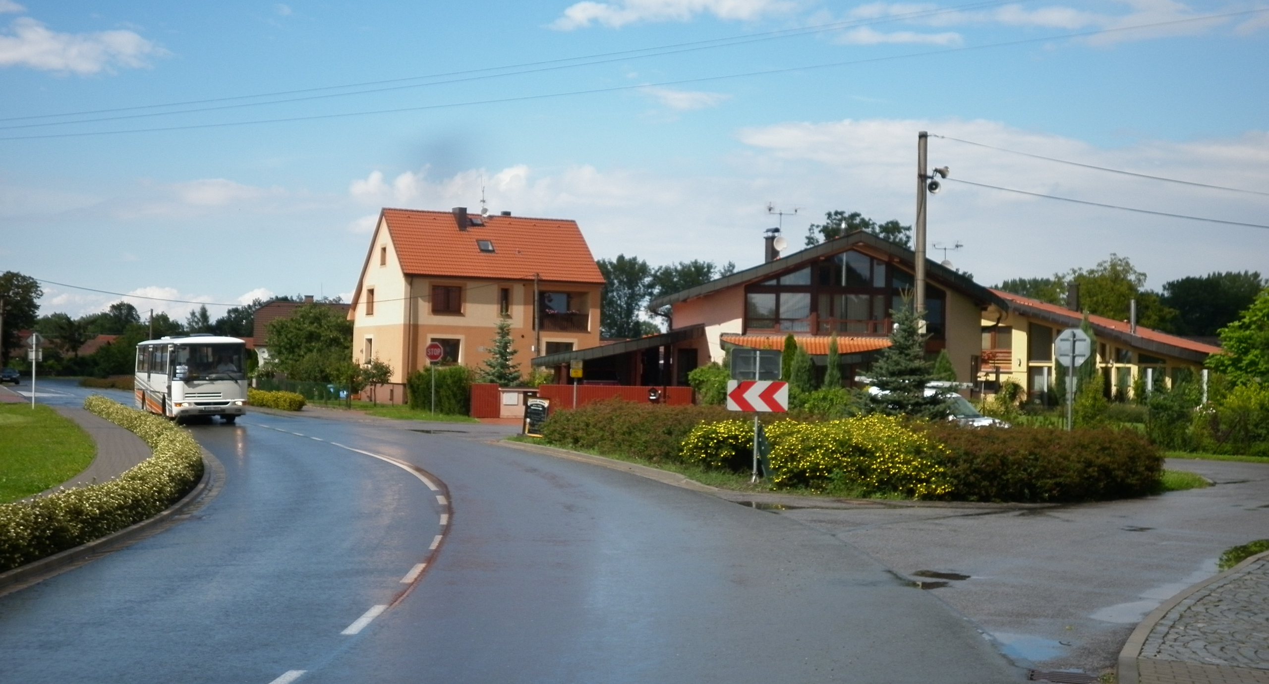 Němčice, Pardubice District, Czech Republic